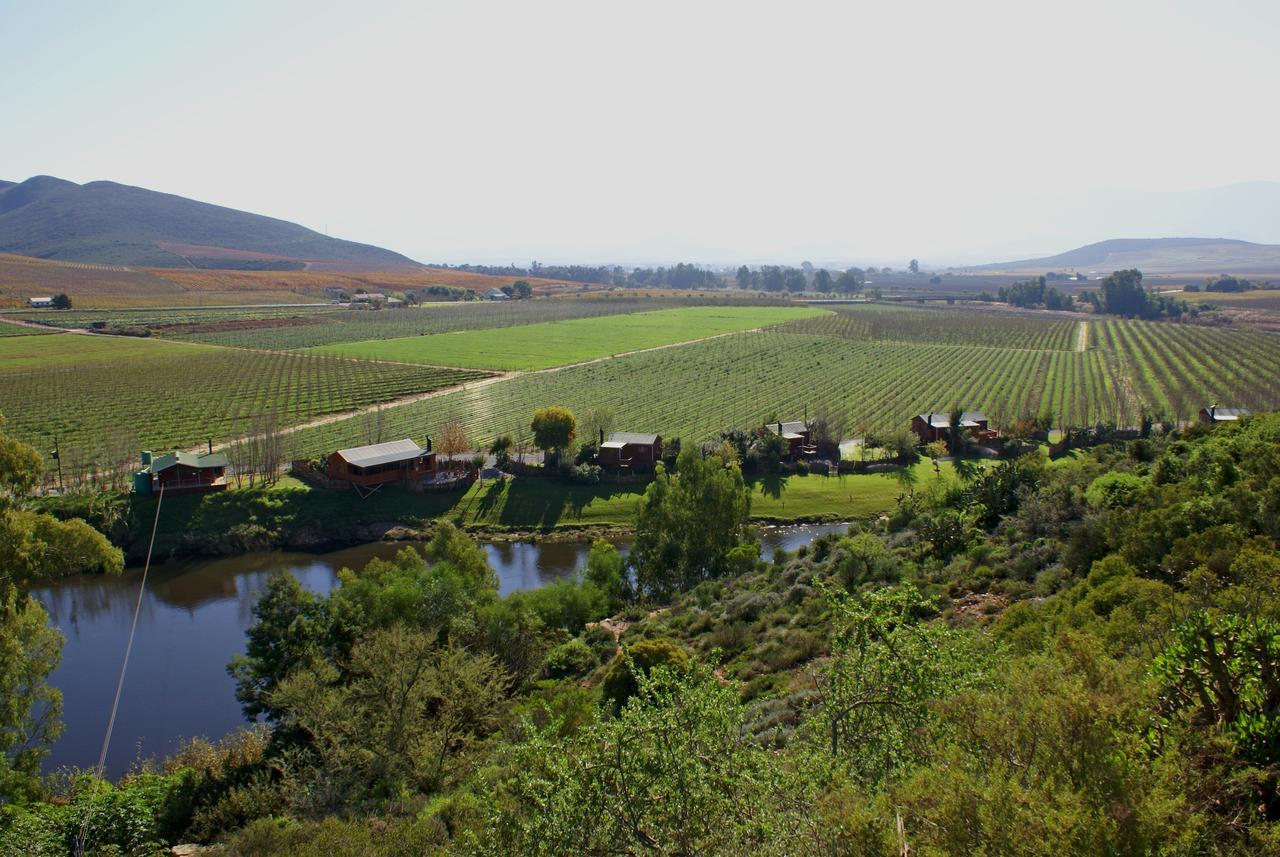 View along Stormsvlei Road between Ashton and Bonnievale. It’s the first time I took this road. It was a bit of a detour but its always nice seeing new scenery (even if the gas tank does get alarmingly low).